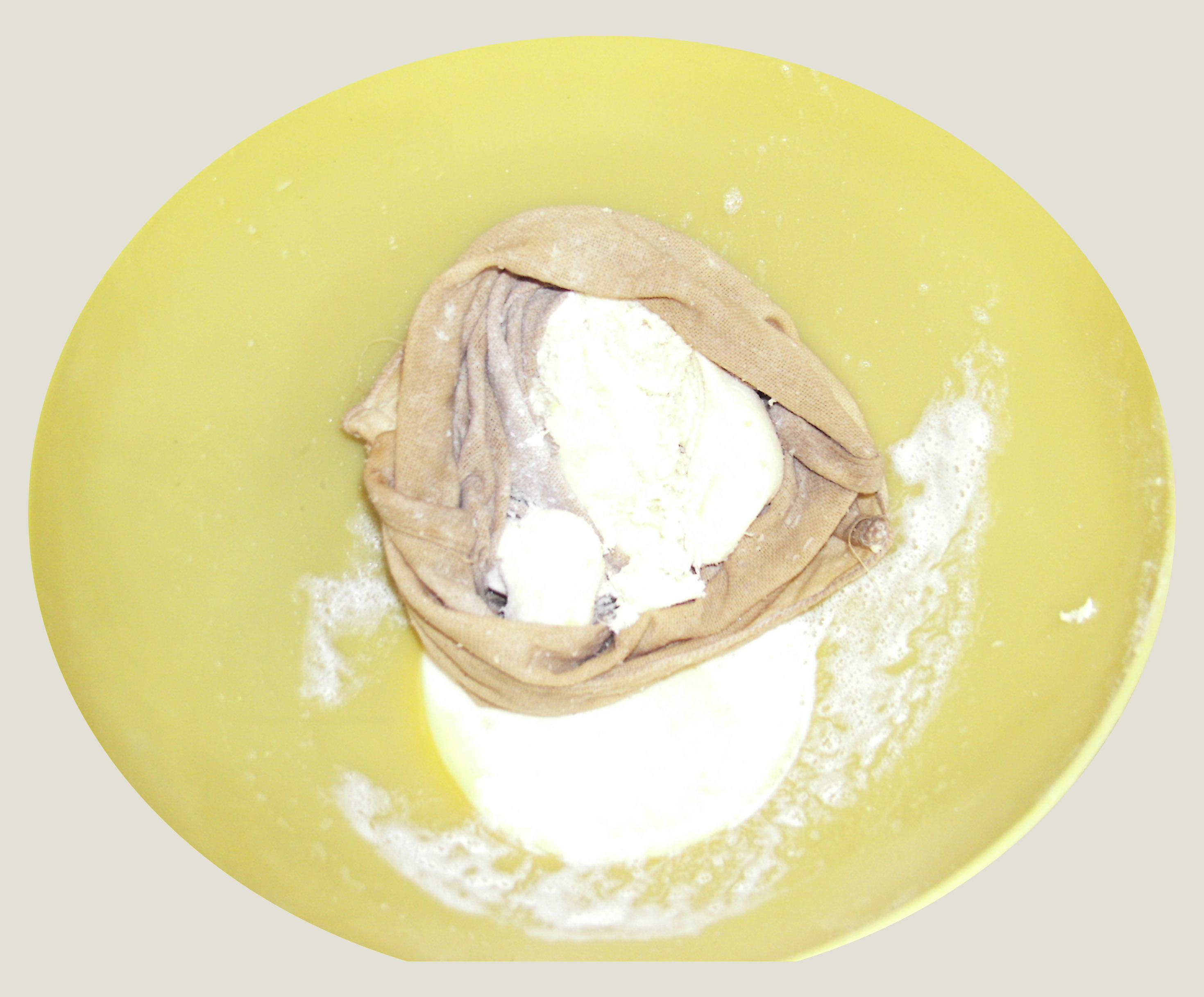 Scraped potatoes